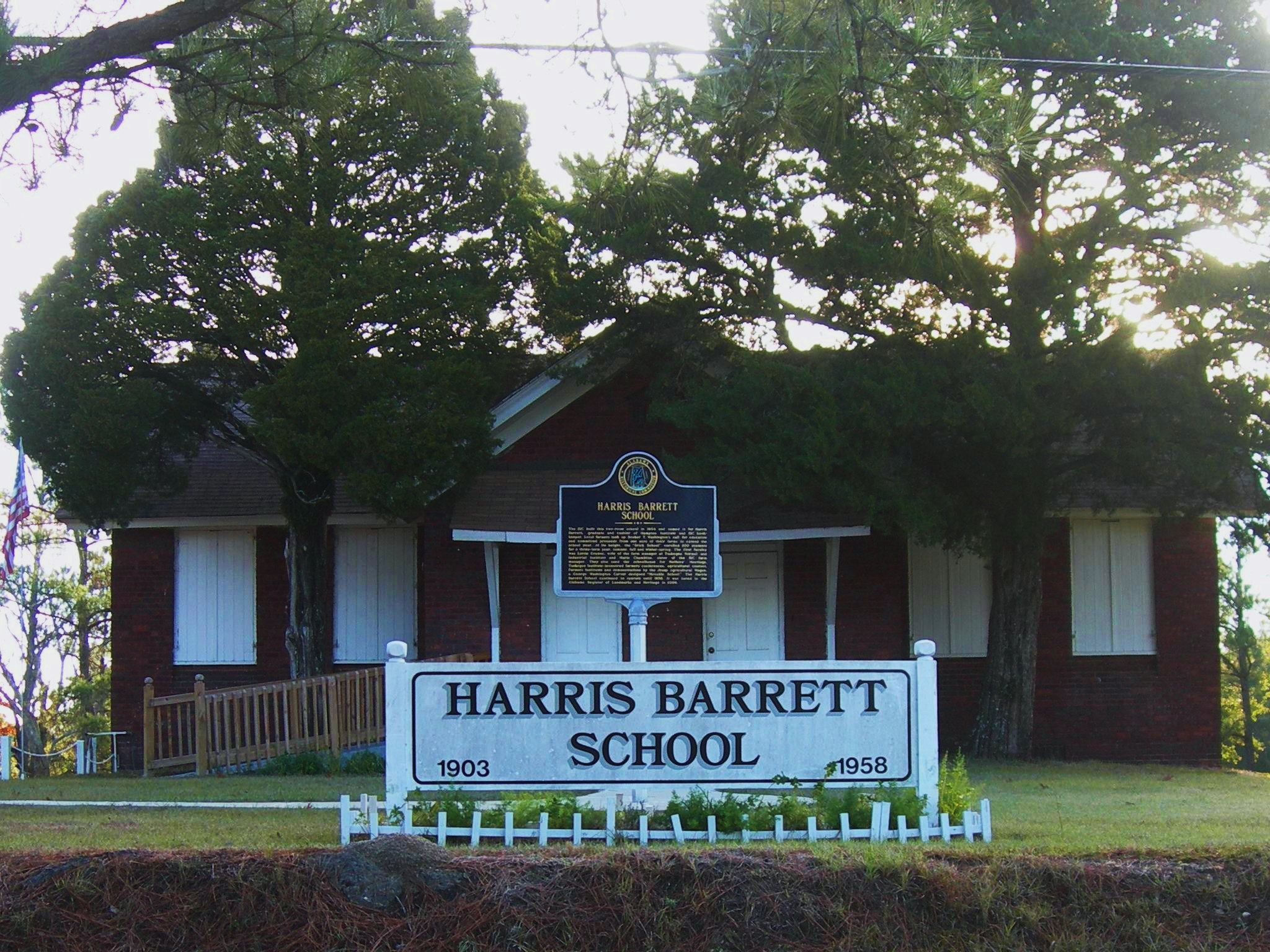 This is a photo of the Harris Barrett School in Franklin, Alabama. Harris Barrett School was built in 1903 with handmade bricks made by Tuskegee Normal School (now Tuskegee University) students under the direction of Booker T. Washington. For many years, it was an education center for area slave descendants.